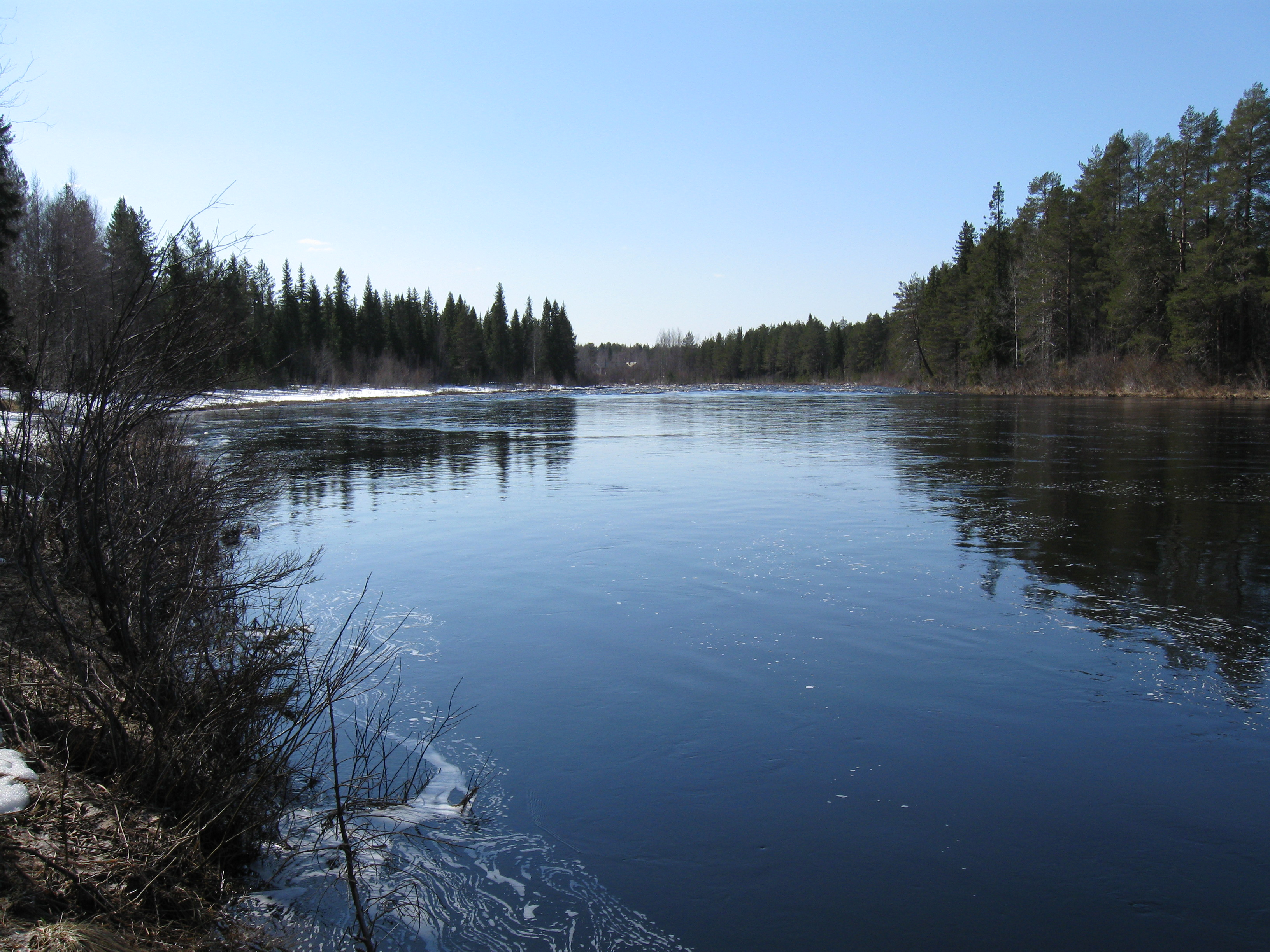 The Hanskankoski rapids of Simojoki in Simo, Finland.